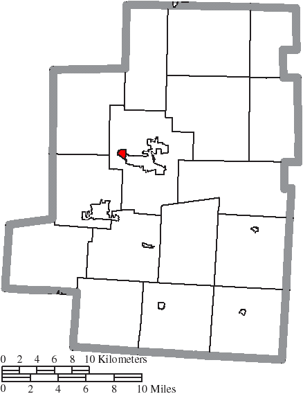 Map of the municipal and township boundaries of Morrow County, Ohio, United States, as of the 2000 census, with the location of the village of Edison highlighted. Township borders are shown only in unincorporated areas in order to differentiate incorporated and unincorporated areas more clearly.